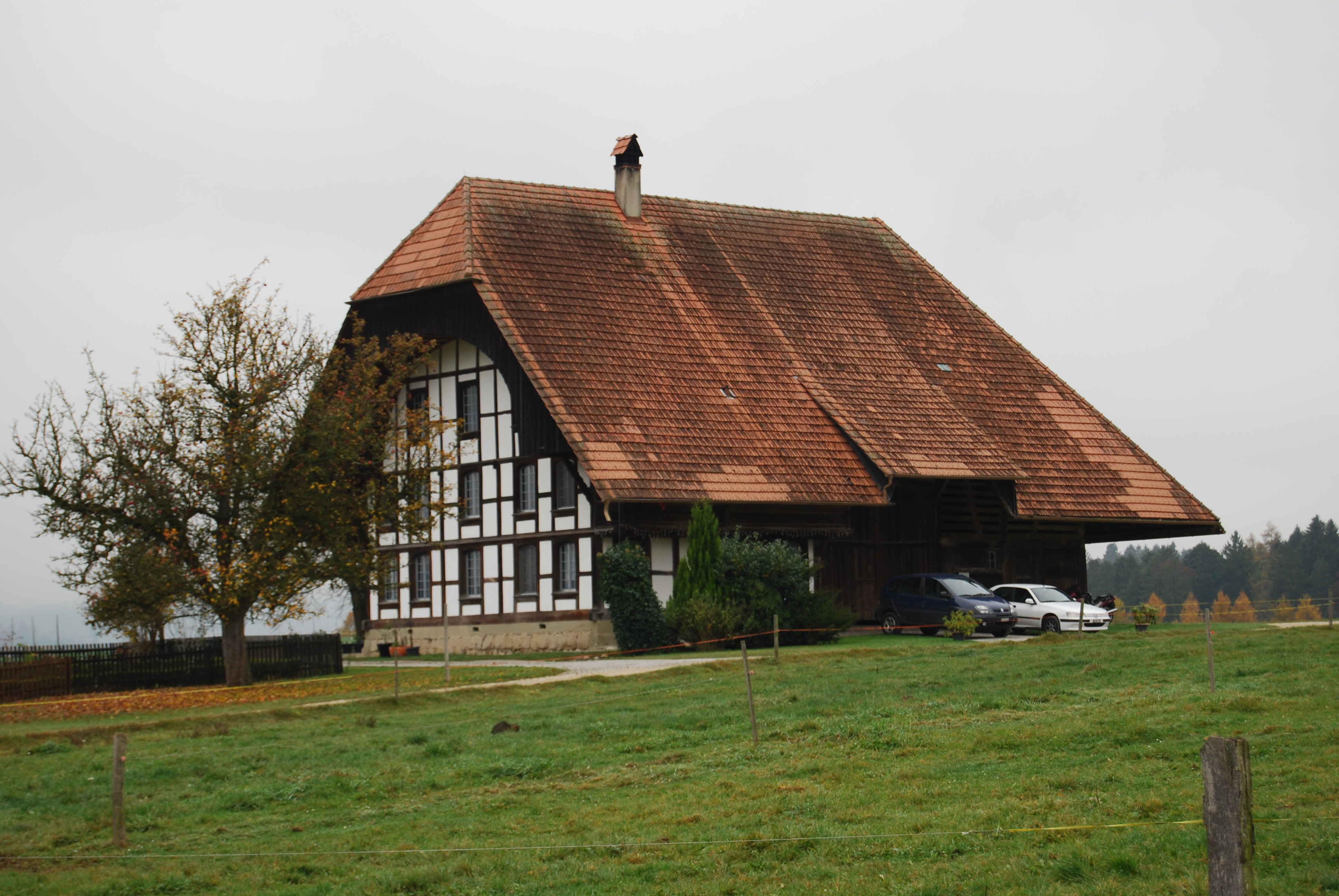 Moosaffoltern, municipality of Rapperswil, canton of Bern, Switzerland